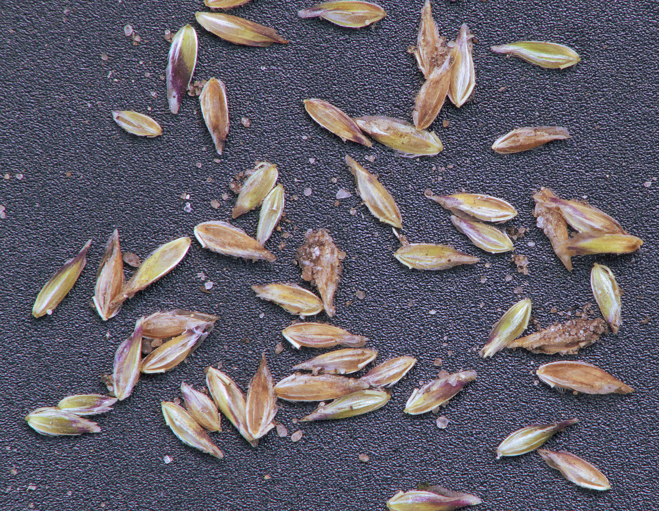 Poa annua fruits (seeds)